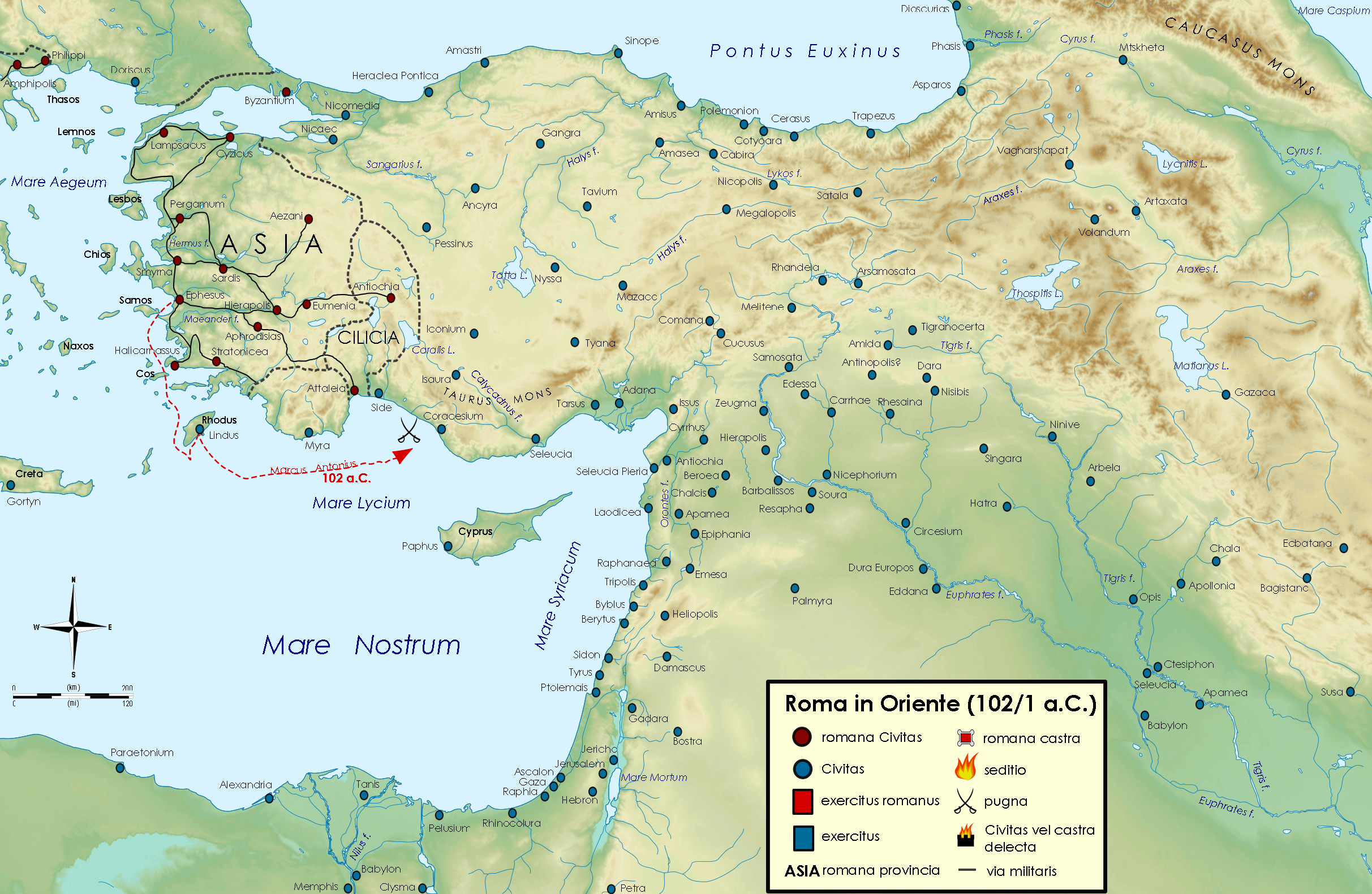 Roman republic in the Near East in 102/101 B.C., making the second asian province: Cilicia